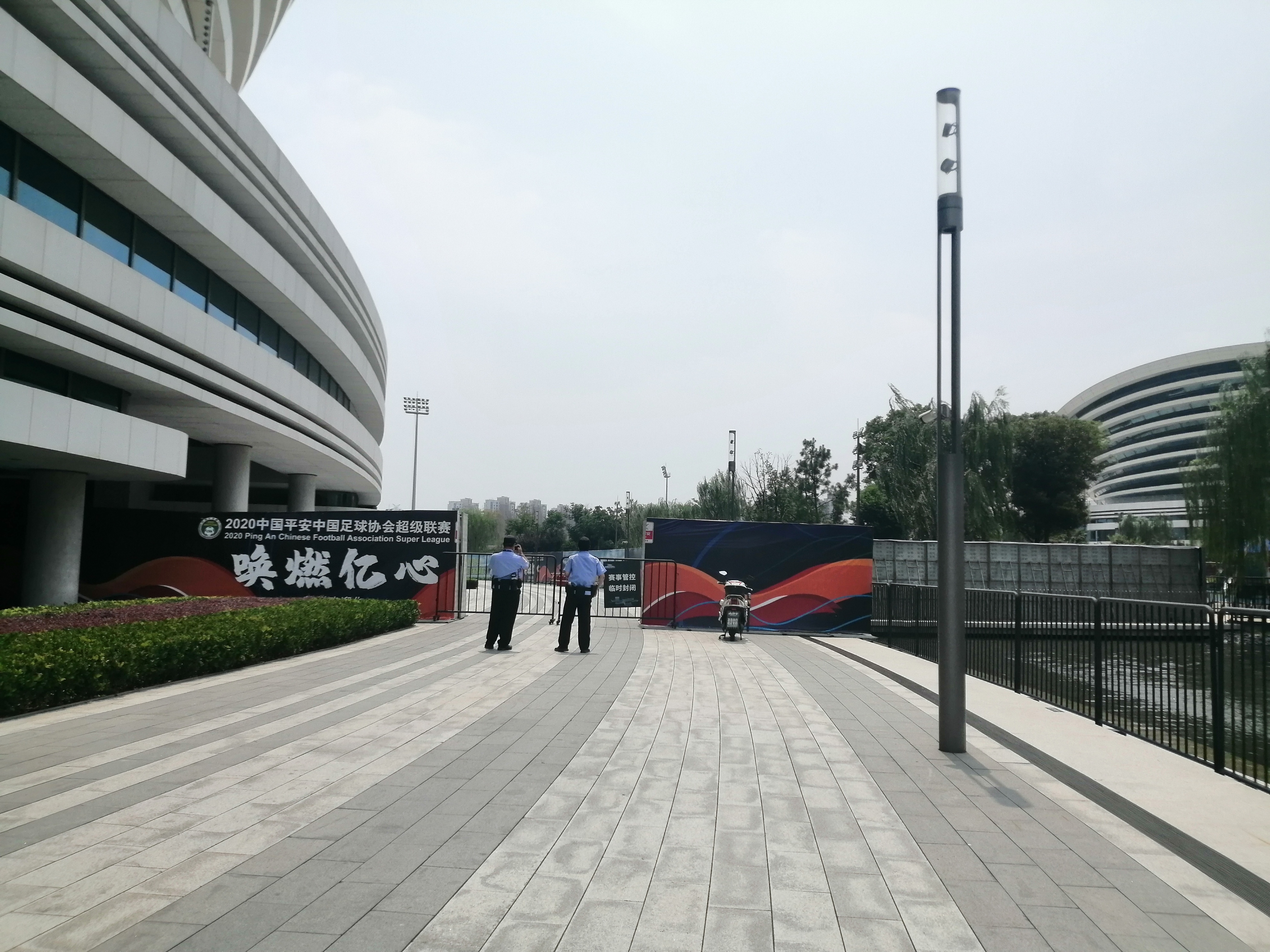 Auxiliary police officers blocked the stadium, before the opening of 2020 Chinese Super League (CSL). Under the guidelines of the CFA, the stadium should be blocked and no audience reception during the COVID-19 pandemic. 中文（中国大陆）: 苏州奥体中心作为2020年中超联赛的比赛场地，在揭幕战开始前，辅警用围栏挡住比赛场地。根据中国足协公布的防疫要求，所有比赛场地实行封闭式管理，且不设观众接待。